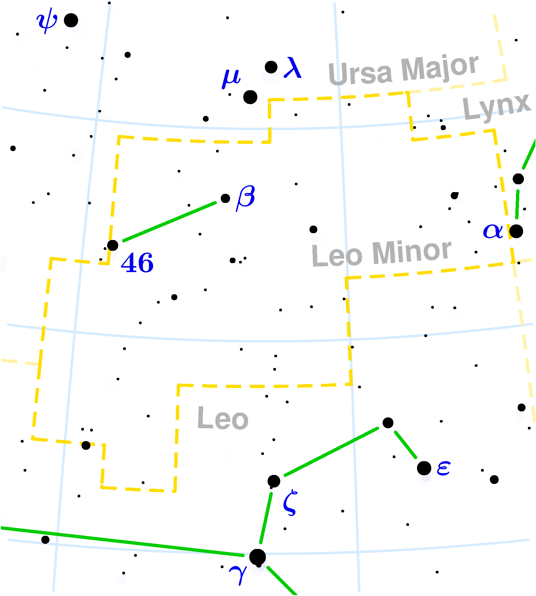 This is a celestial map of the constellation Leo Minor, the Small Lion.